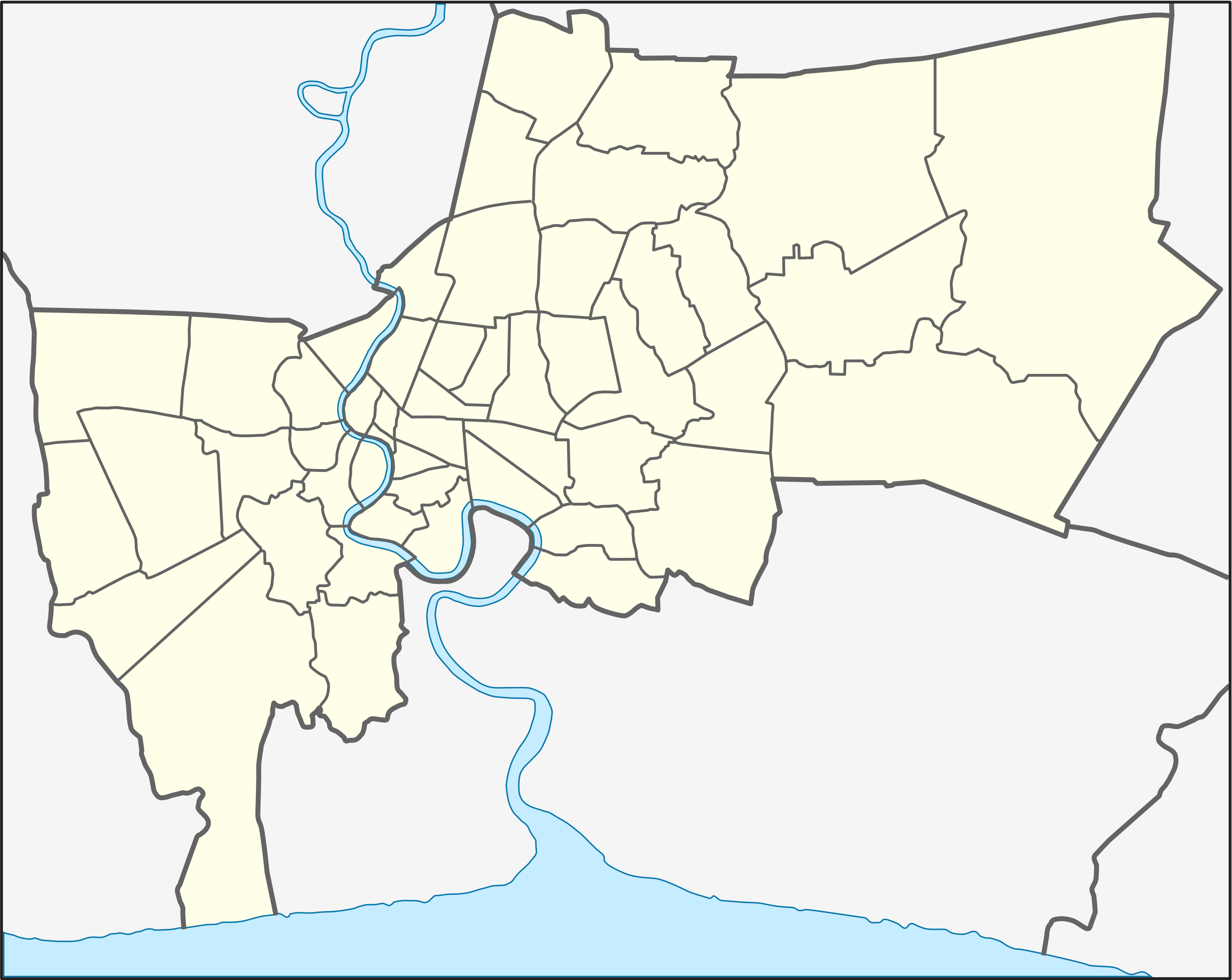 Location map of Bangkok; Geographic limits of the map: N: 13.9611° N S: 13.4658° N W: 100.3153° E E: 100.9417° E